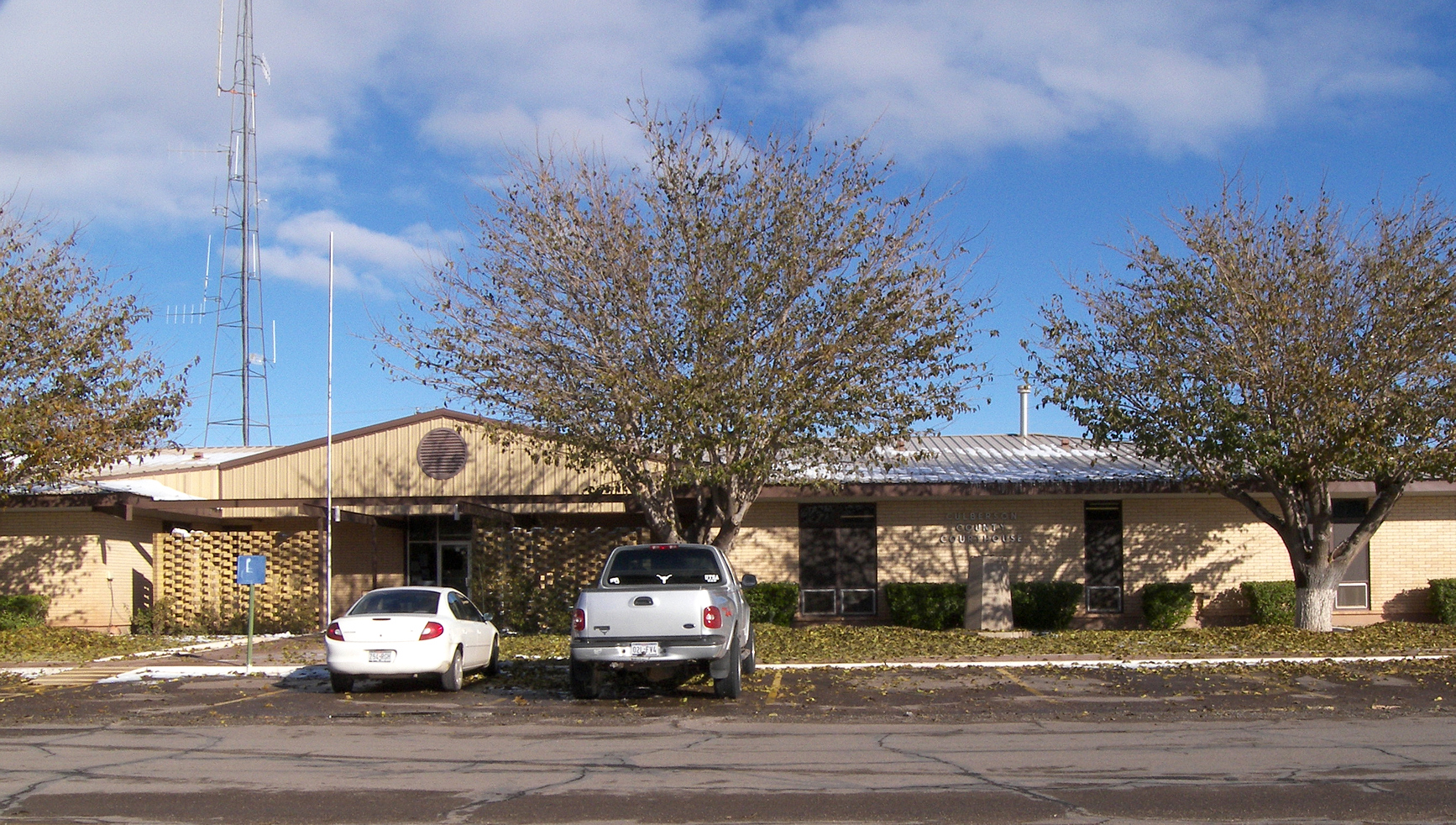 The Culberson County Courthouse located at 300 La Caverna St, Van Horn, Texas, United States.